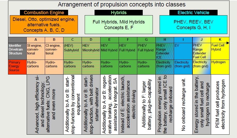 Schematic classification of alternative powertrains with differing intensities of the electrified part